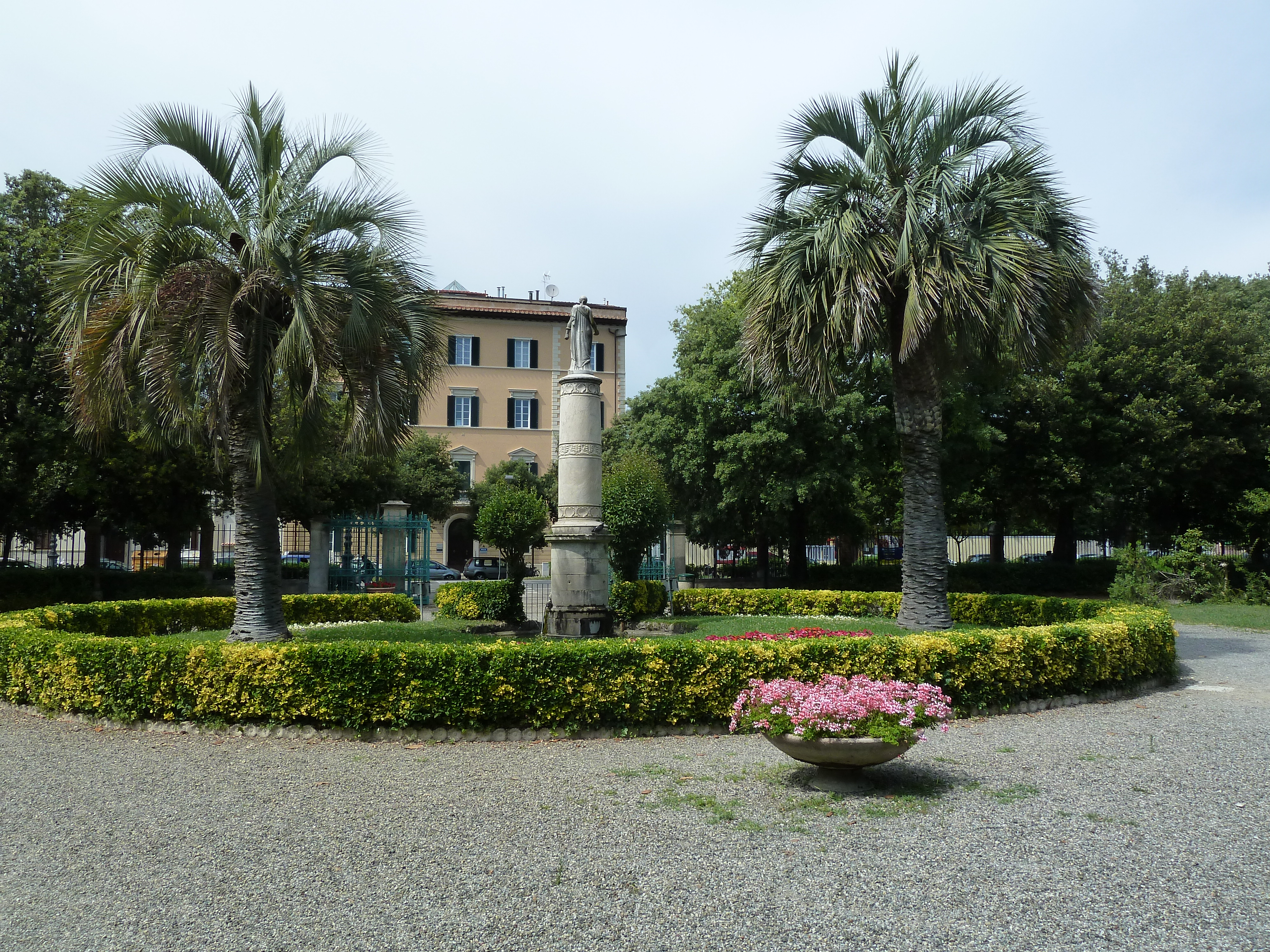 Parco Inclusivo Luciano Vizzoni, Livorno, Italy 2015